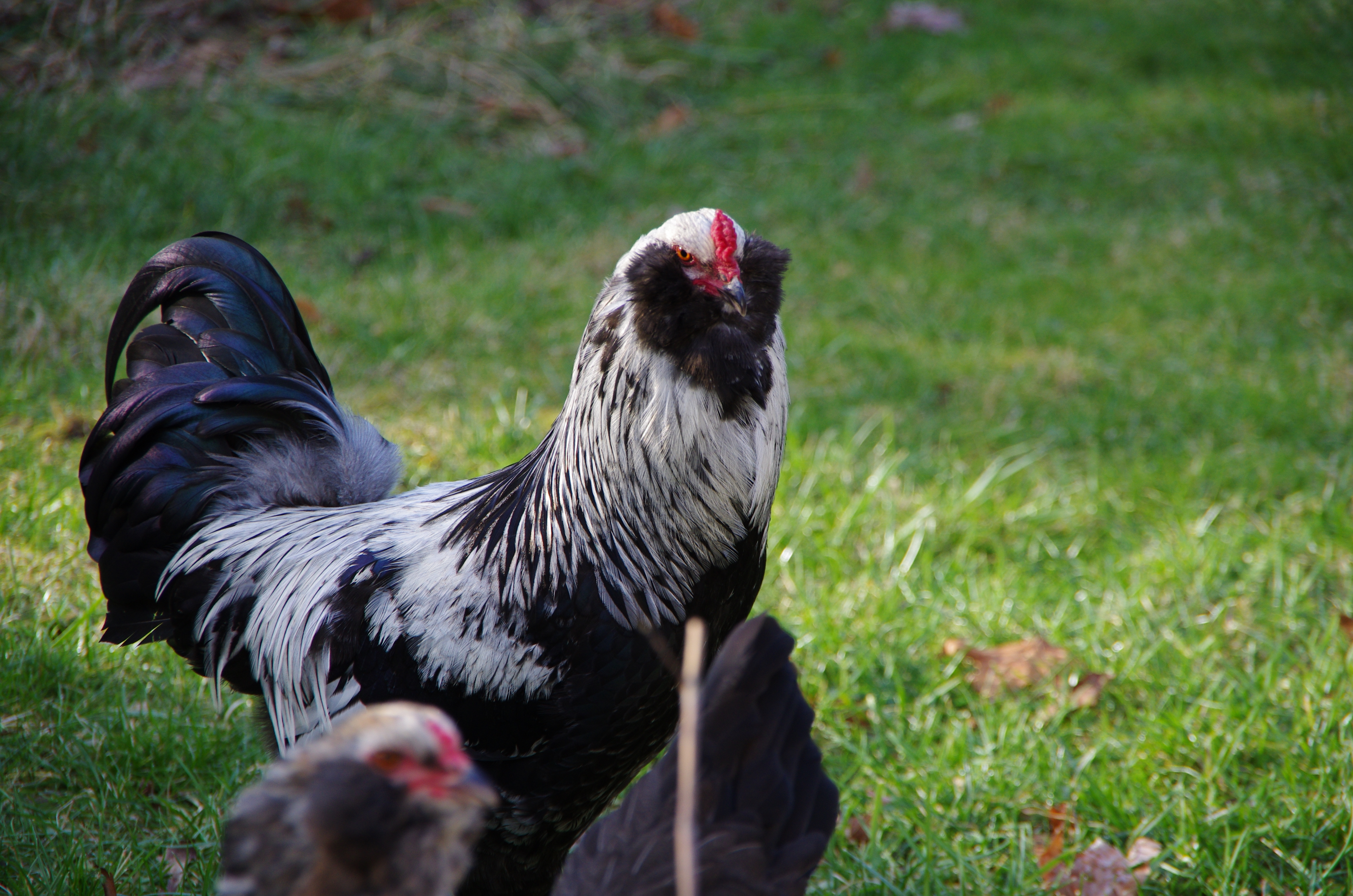 Silver Ameraucana cockerel; young male chicken